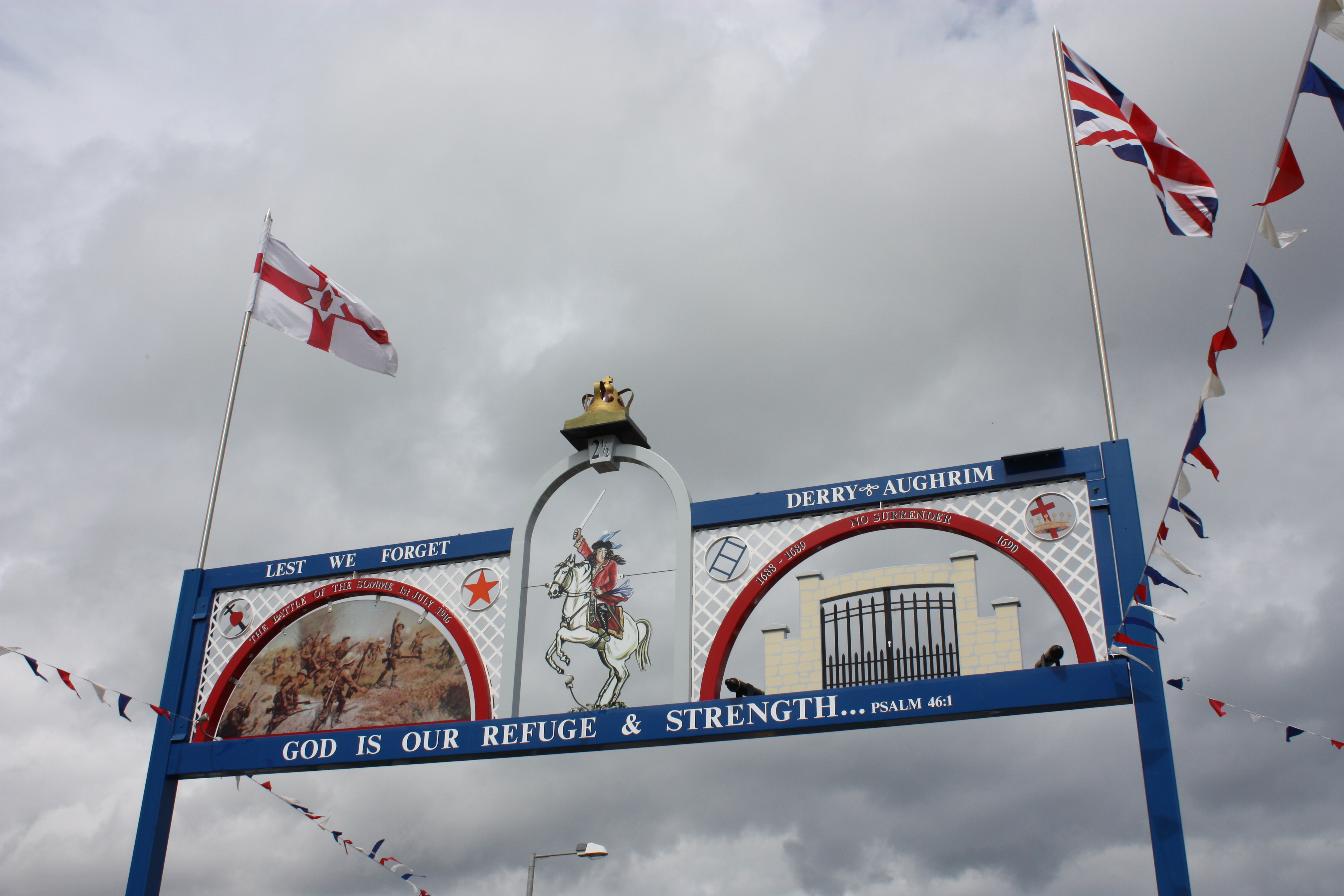 Orange Arch on Kilkeel Road, Annalong, County Down, Northern Ireland, July 2010